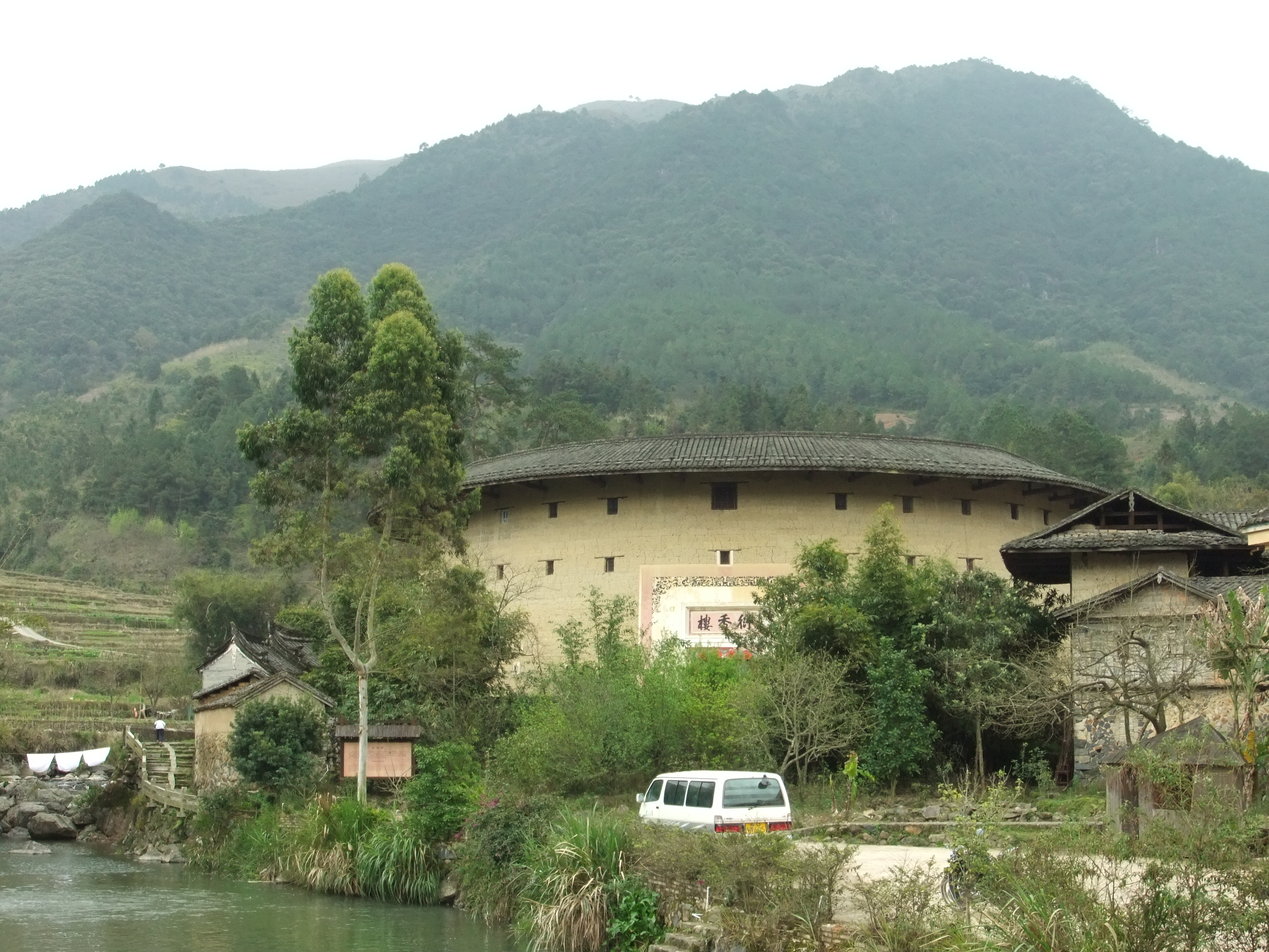 Yanxiang Lou is a large round tulou in Xinnan Village (Xinnancun), Hukeng Town, Yongding County, Fujian. There are many other tulous in Xinnancun, but Yanxiang Lou is the only one in the village listed as one of the sites of the World Heritage object "Fujian Tulou".